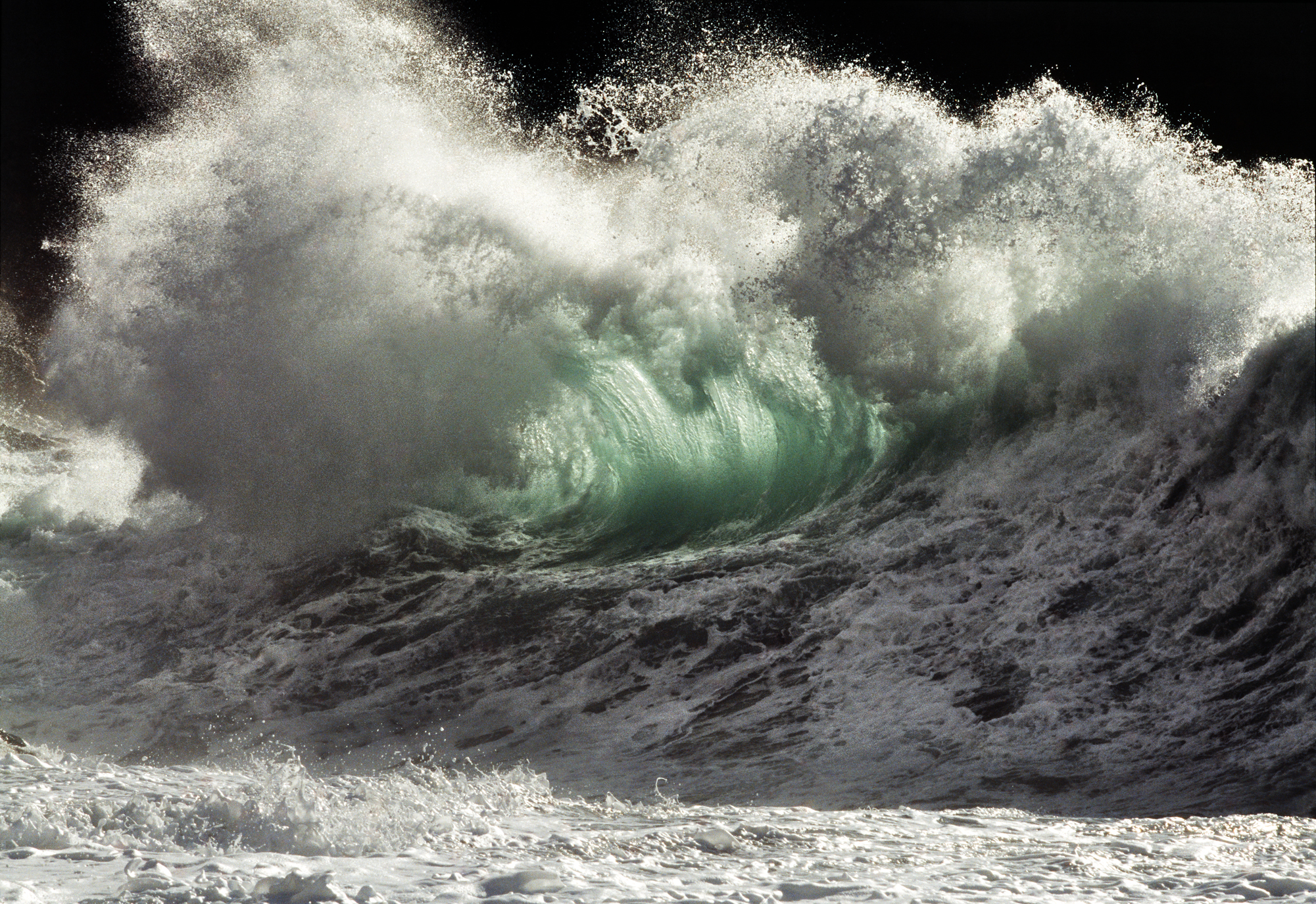 A wave during a heavy sea in Bonassola (SP), Italy